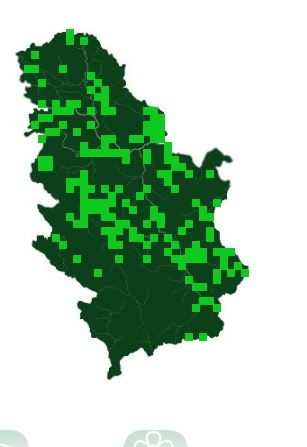 Rasprsotranjenje vrste u Srbiji (Alciphron)